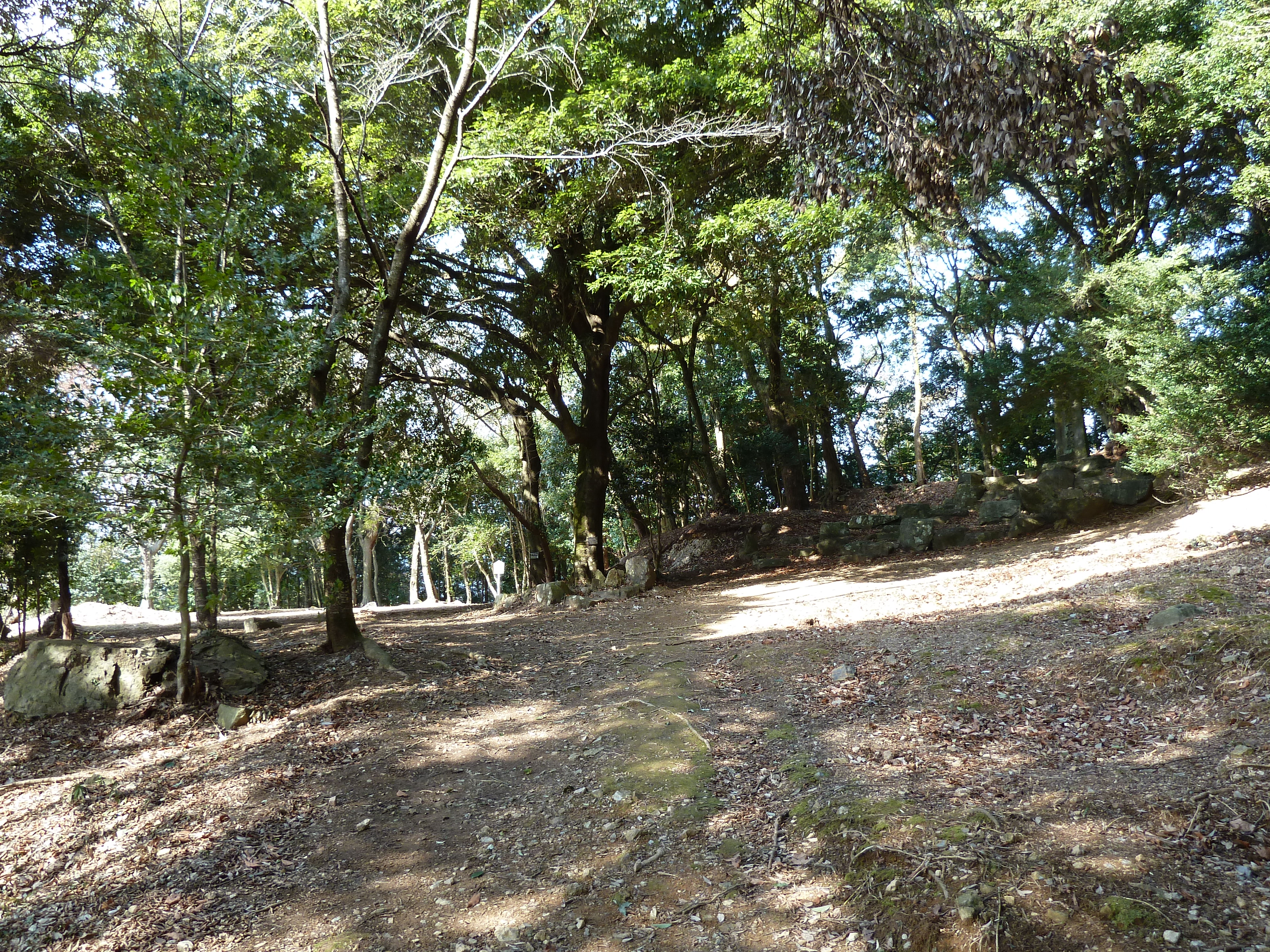 三の丸